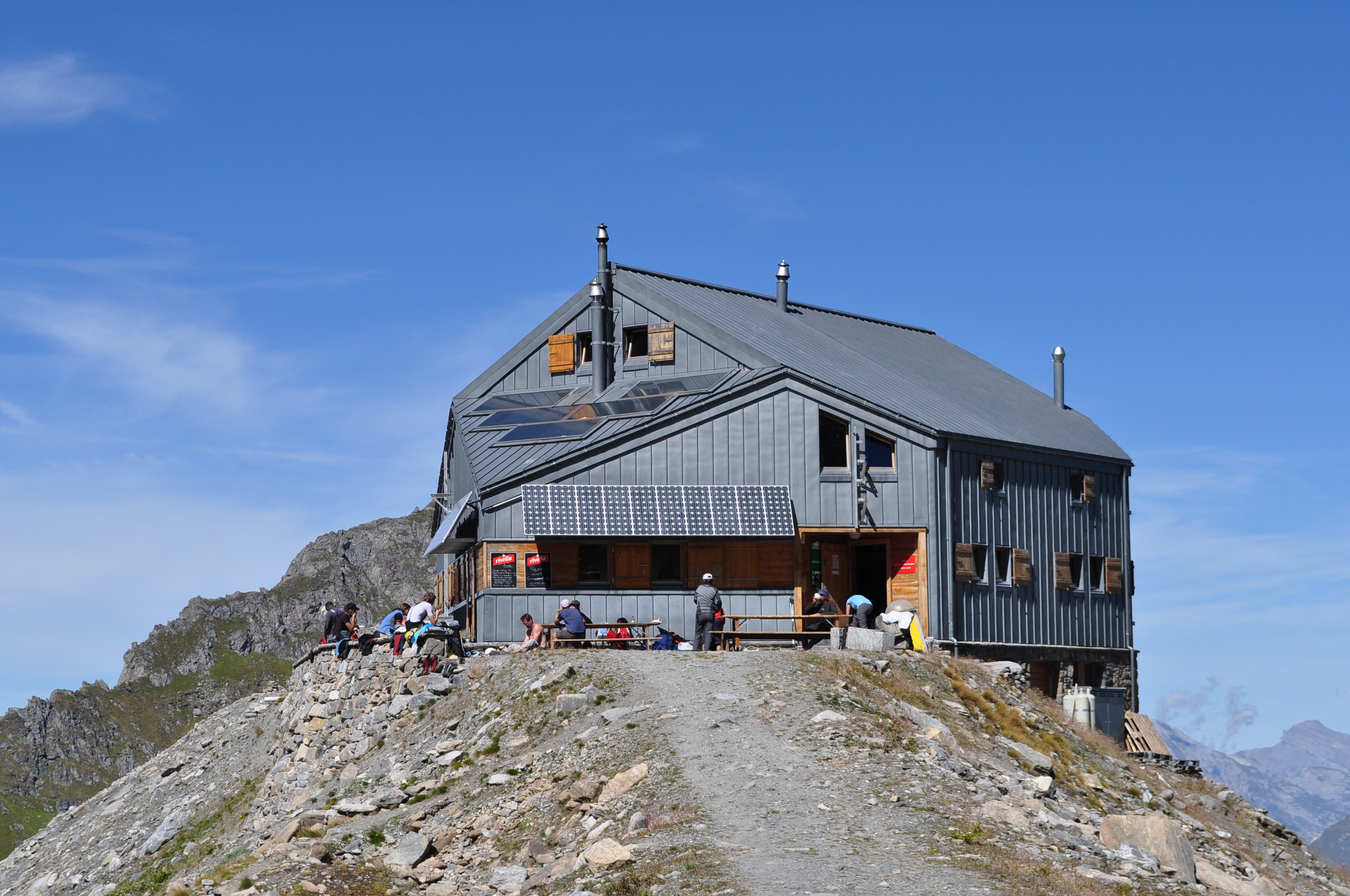 Cabane FXB de Panossière